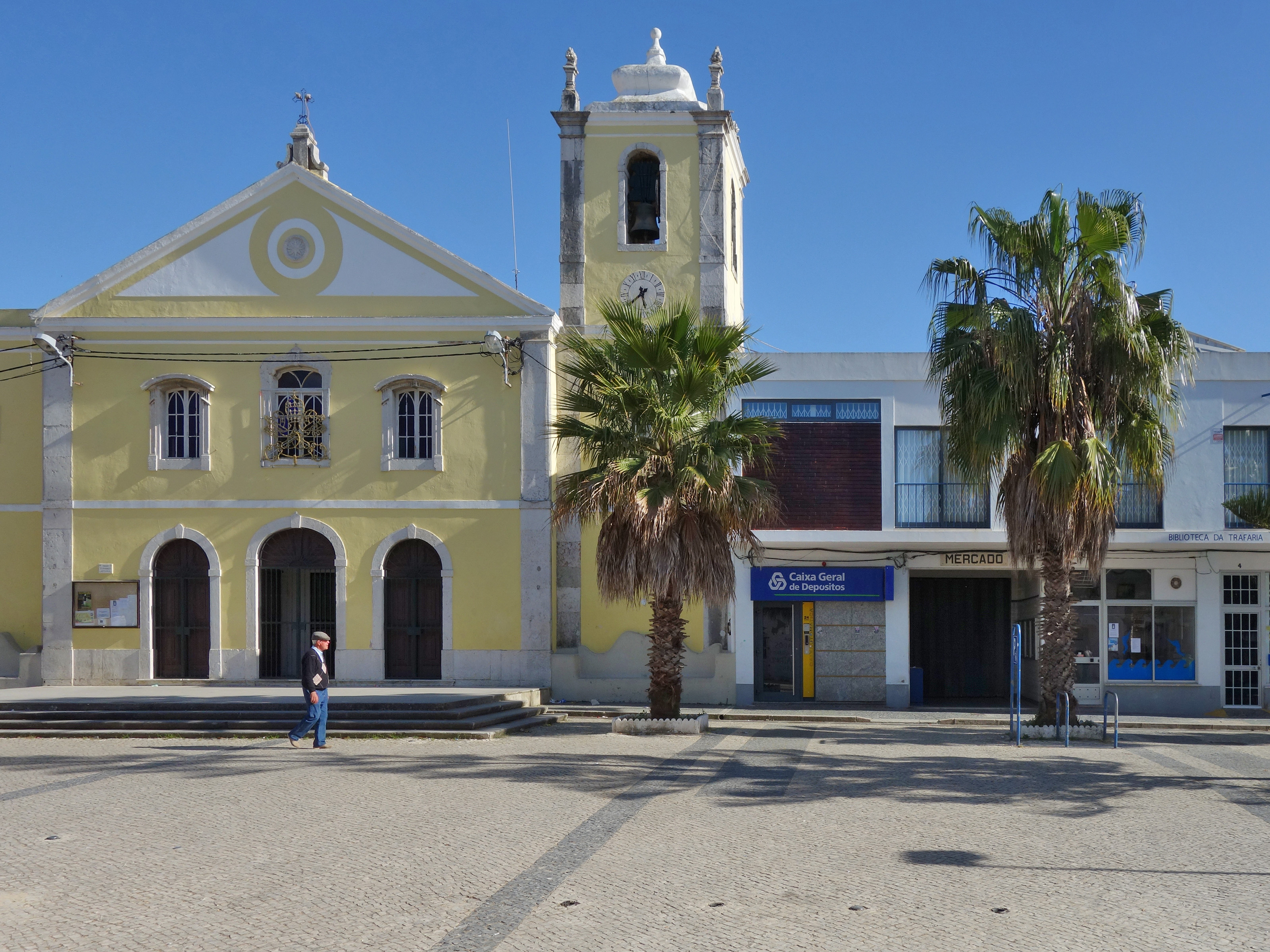 Trafaria, Largo da República with Igreja Paroquial de São Pedro da Trafaria, Market and Library.